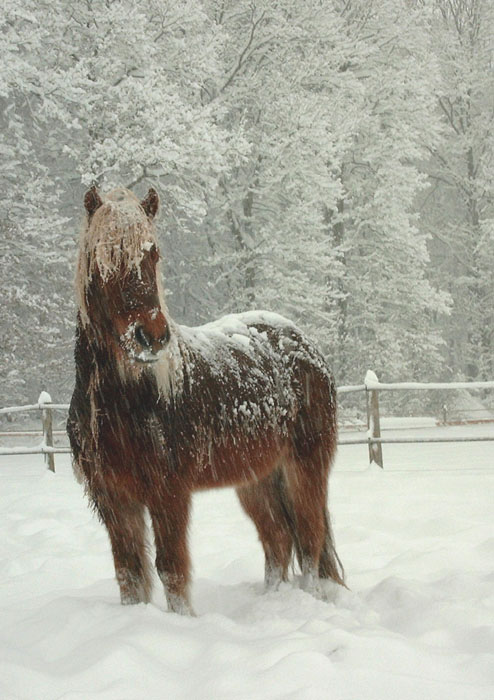 Icelandic horse in the snow